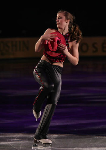 Ashley Wagner (USA) at the 2008 NHK Trophy exhibition.